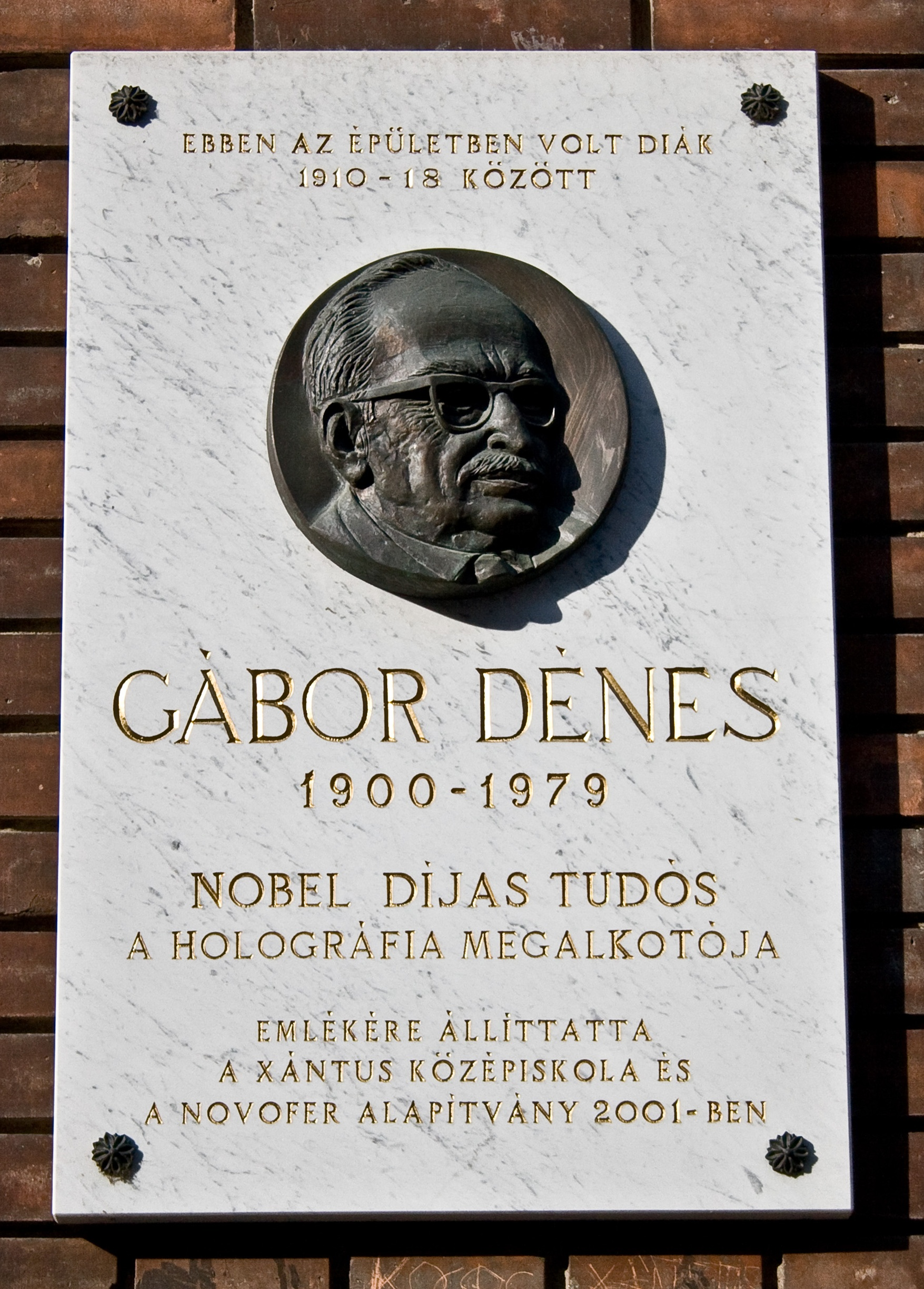 Dénes Gábor (physicist) commemorative plaque with relief in Budapest District V, Markó Street No 18-20